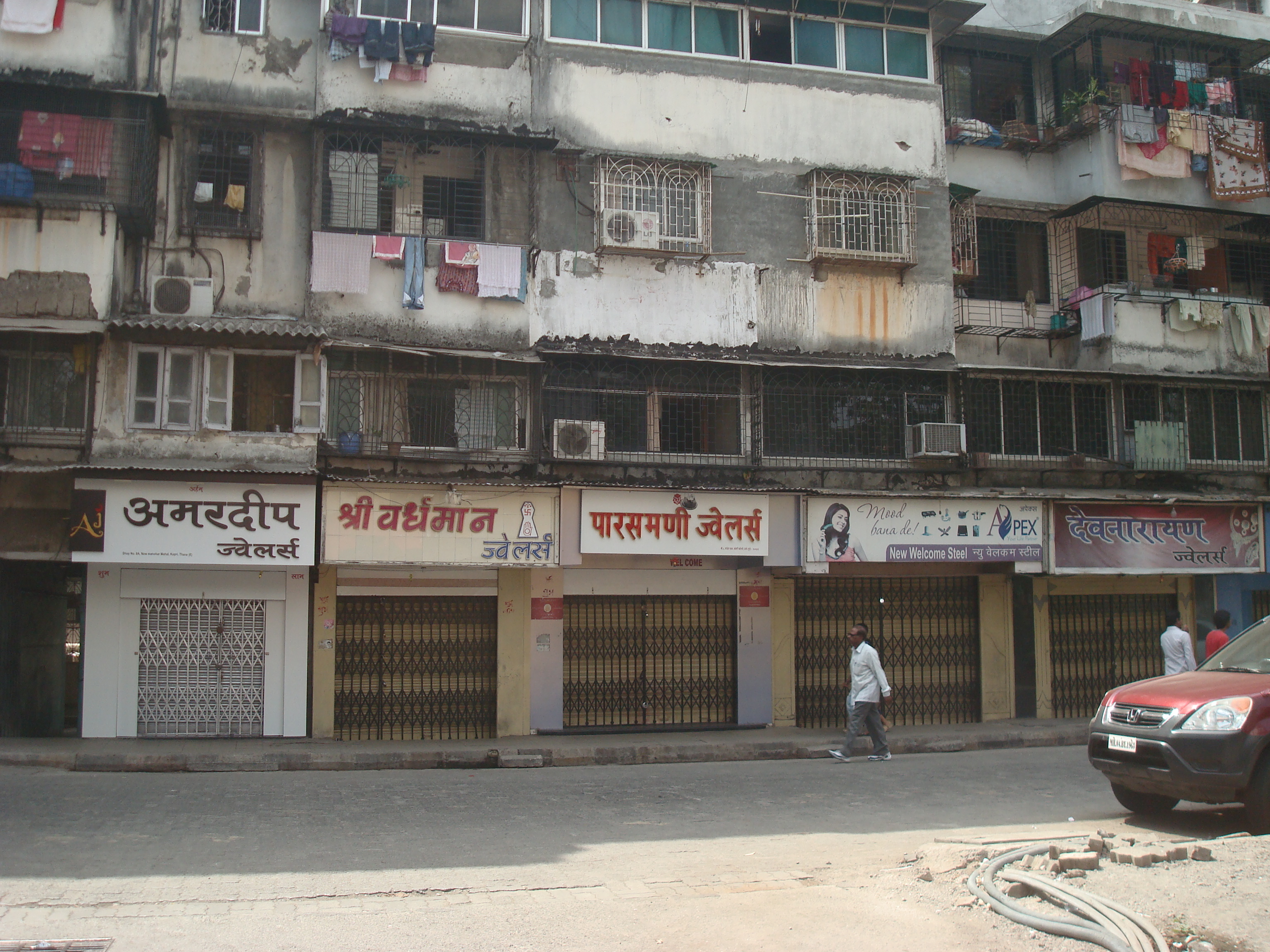 LBT bandh, Thane East